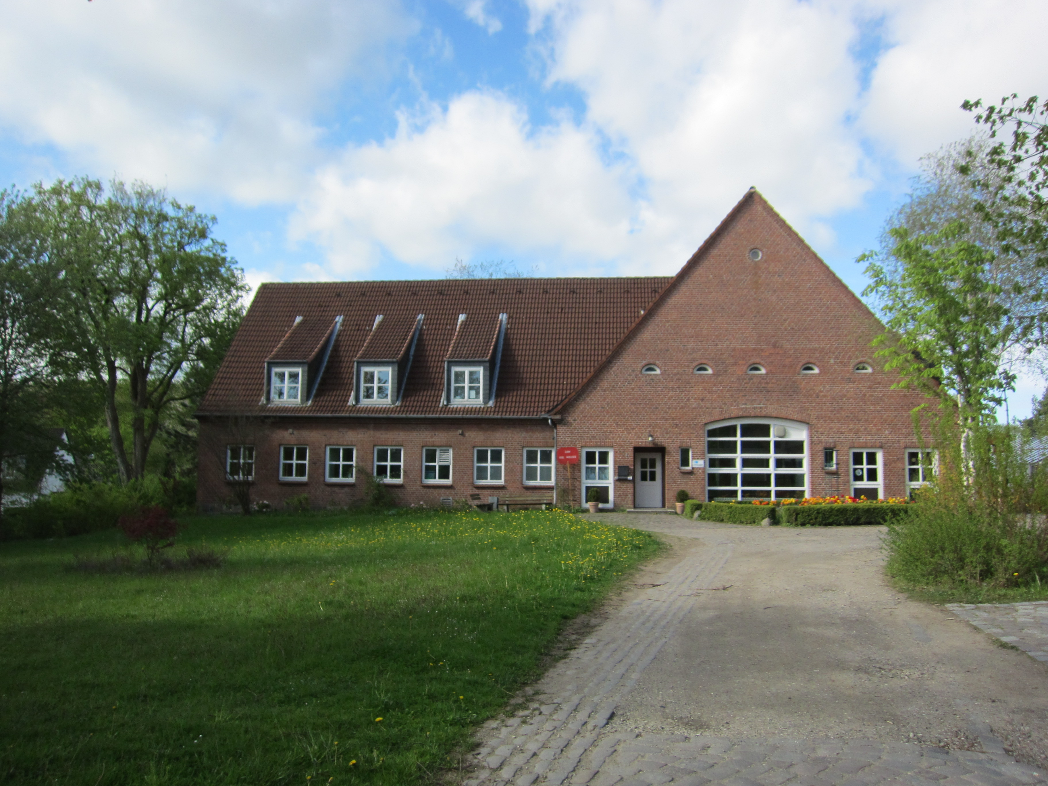 School "Jugendaufbauwerk Kiel" in Kiel-Wellsee